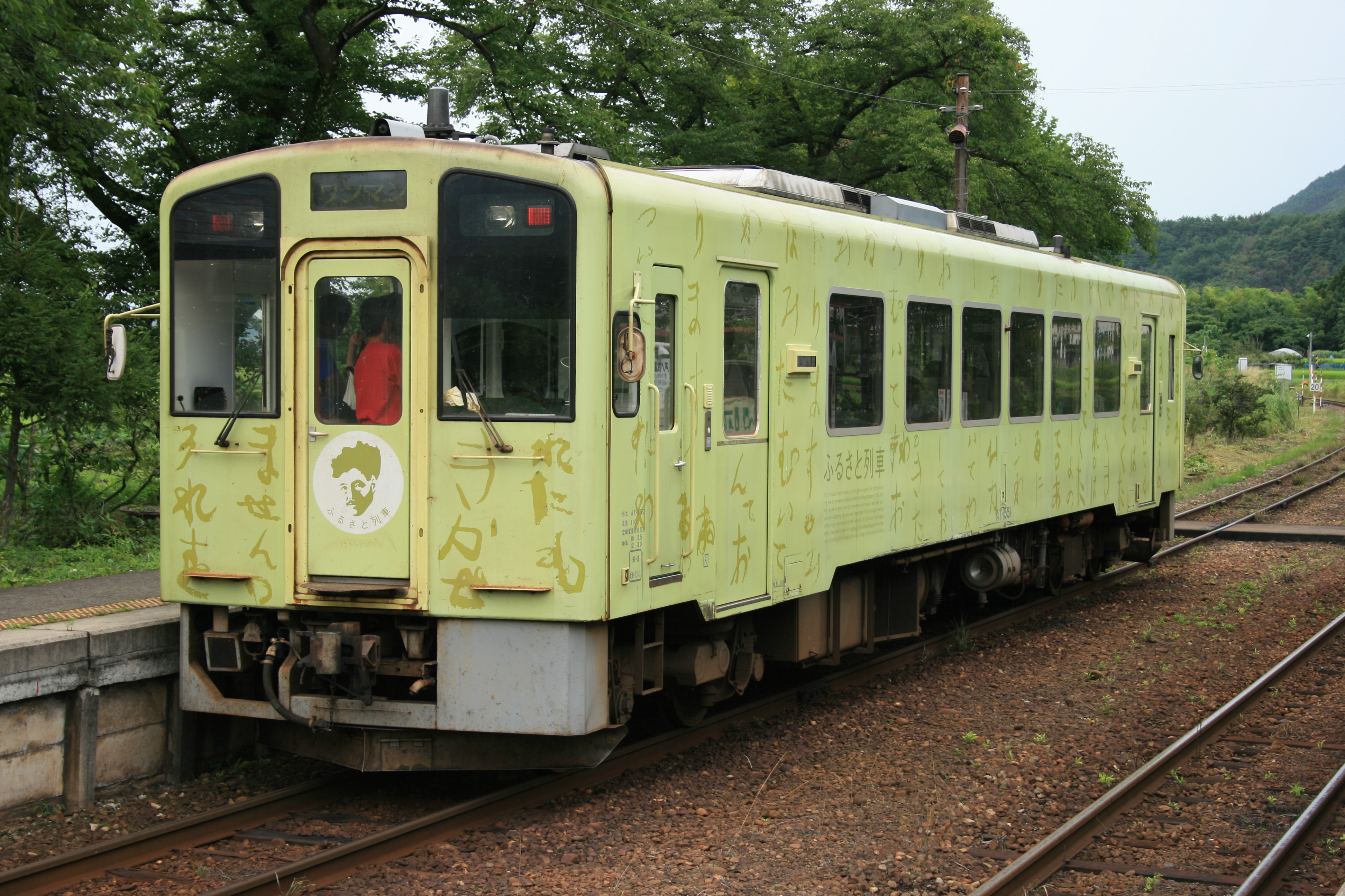 Aizu Railway AT-550 Type Diesel Car.